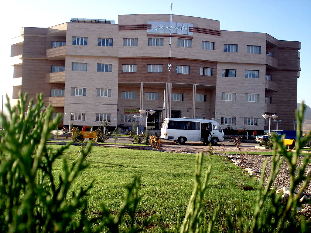 Bukan Azad University